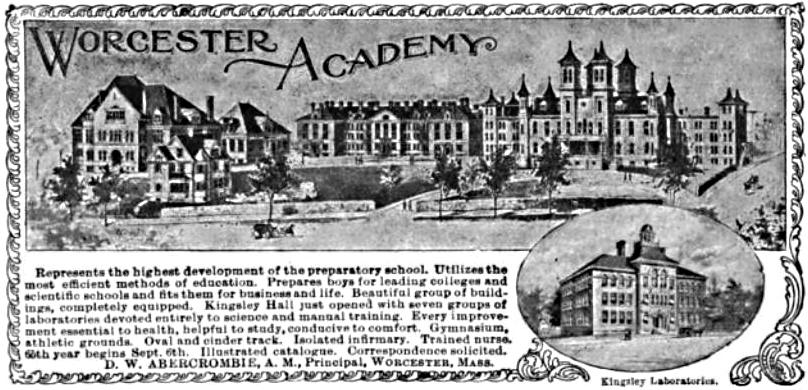 Worcester Academy advertisement from 1898.